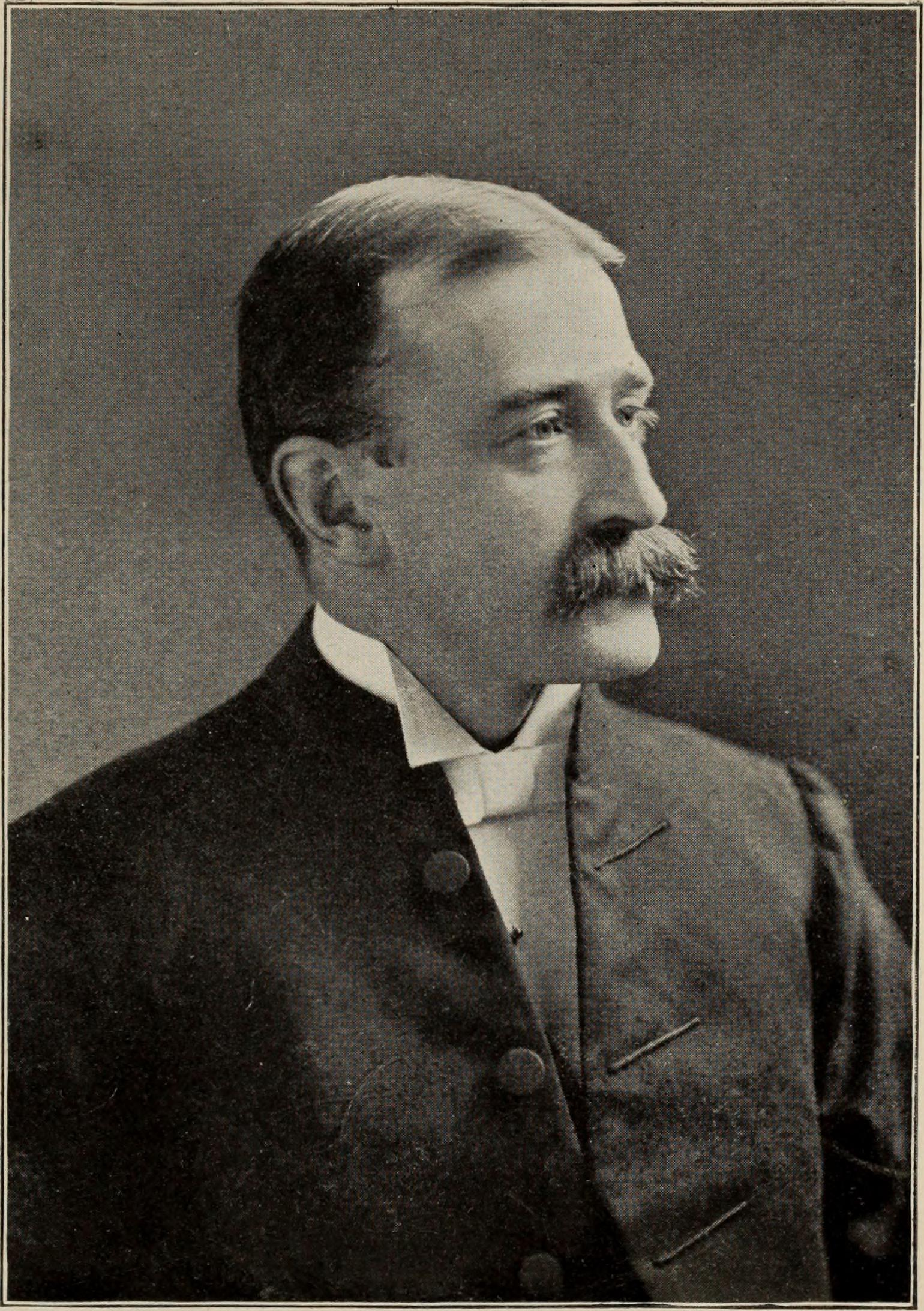 Title: Newfoundland at the beginning of the 20th century : a treatise of history and development Year: 1902 (1900s) Authors: Harvey, M. (Moses), 1820-1901 Subjects: George V, King of Great Britain, 1865-1936 Publisher: New York : The South Publishing Co. Text Appearing Before Image: ' Text Appearing After Image: Hon. W. H. Horwood, Minister of Justice. CHAPTER III. CLIMATE. Erroneous ideas regarding the climate are quite as prev-alent as the delusions in reference to the soil and its naturalproducts. The bulk of outsiders still fancy that the island isenveloped in almost perpetual fogs in summer, and given overto intense cold and a succession of snow storms in winter. Itis true that it partakes of the general character of the NorthAmerican climate, and is therefore much colder than lands inthe same latitude in the Old World, but in the American senseof the term, it is by no means a cold country. Winter sets inas a rule in the beginning of December, and lasts till the middleof April. During this time a snow-mantle of greater or lessdepth usually covers the ground; but winter is the time forsocial enjoyments of all kinds, and is far from being unpleasant.Springs are late owing to the Arctic current, but when warmthcomes, vegatation is very rapid. Being insular, the climate is variable and subje